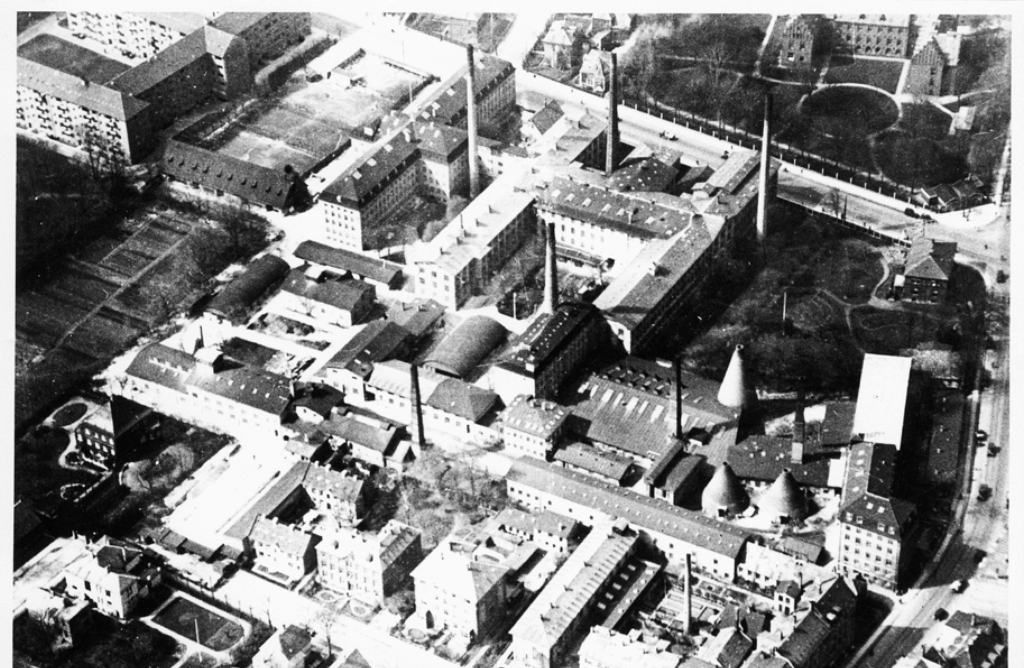 The Royal Porcelain Factory (Royal Copenhagen) at the corner of Smallegade and Søndre Fasanvej in Frederiksberg, Copenhagen, Denmark